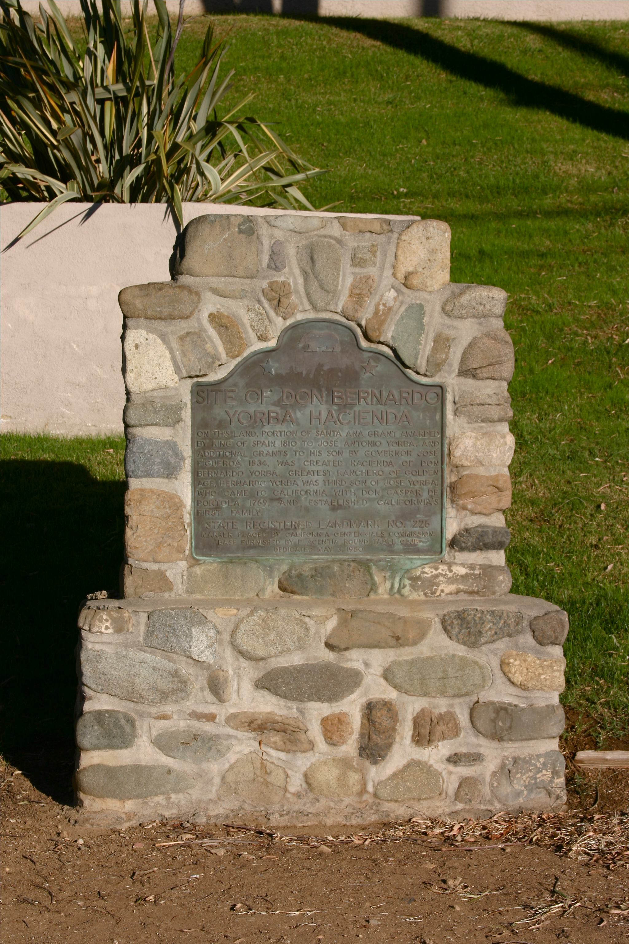 California Historical Landmark 226 for the Site of the Don Bernardo Yorba Hacienda. Construction of the Yorba Hacienda began 1835 by Don Bernardo Yorba on the land grant named Rancho Cañón de Santa Ana and was the most palatial adobe haciendas in all of Alta California.